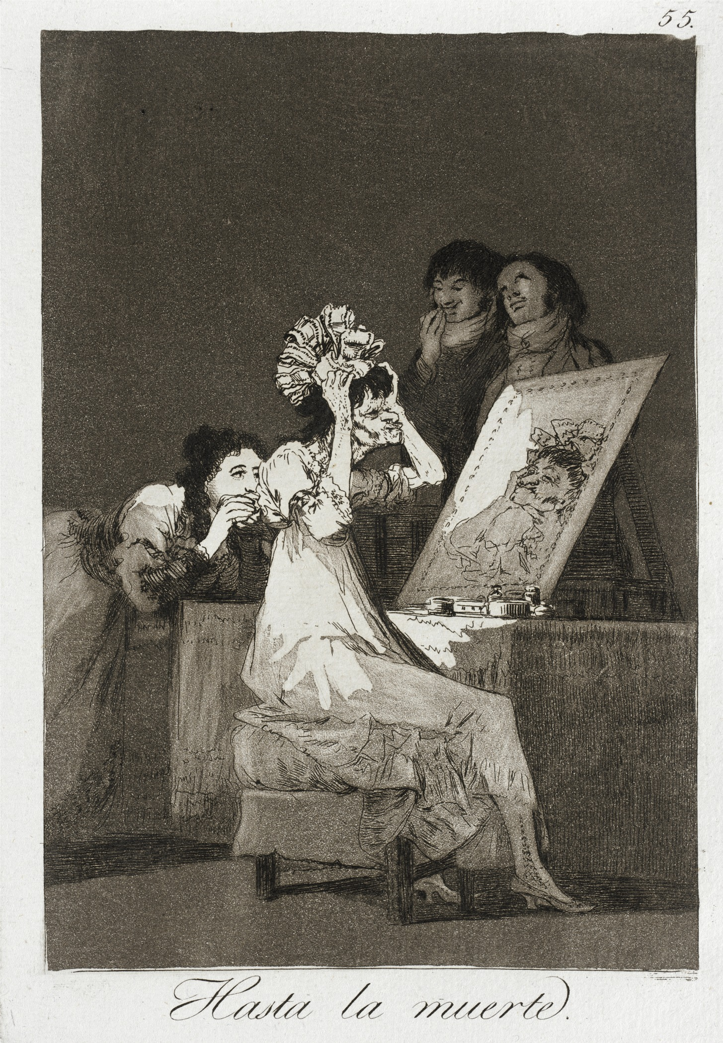 Spain, 1799 Alternate Title: Hasta la muerte Portfolio: Los Caprichos, plate 55 Prints; etchings Etching, burnished aquatint and dryoint Paul Rodman Mabury Trust Fund (63.11.55) Prints and Drawings